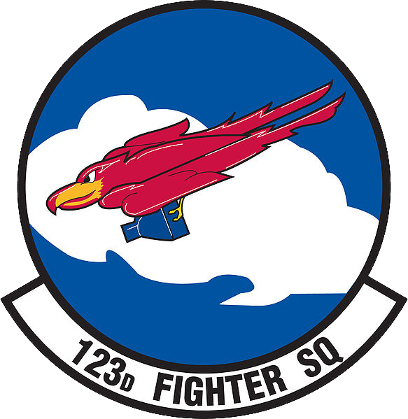 Emblem of the 123rd Fighter Squadron